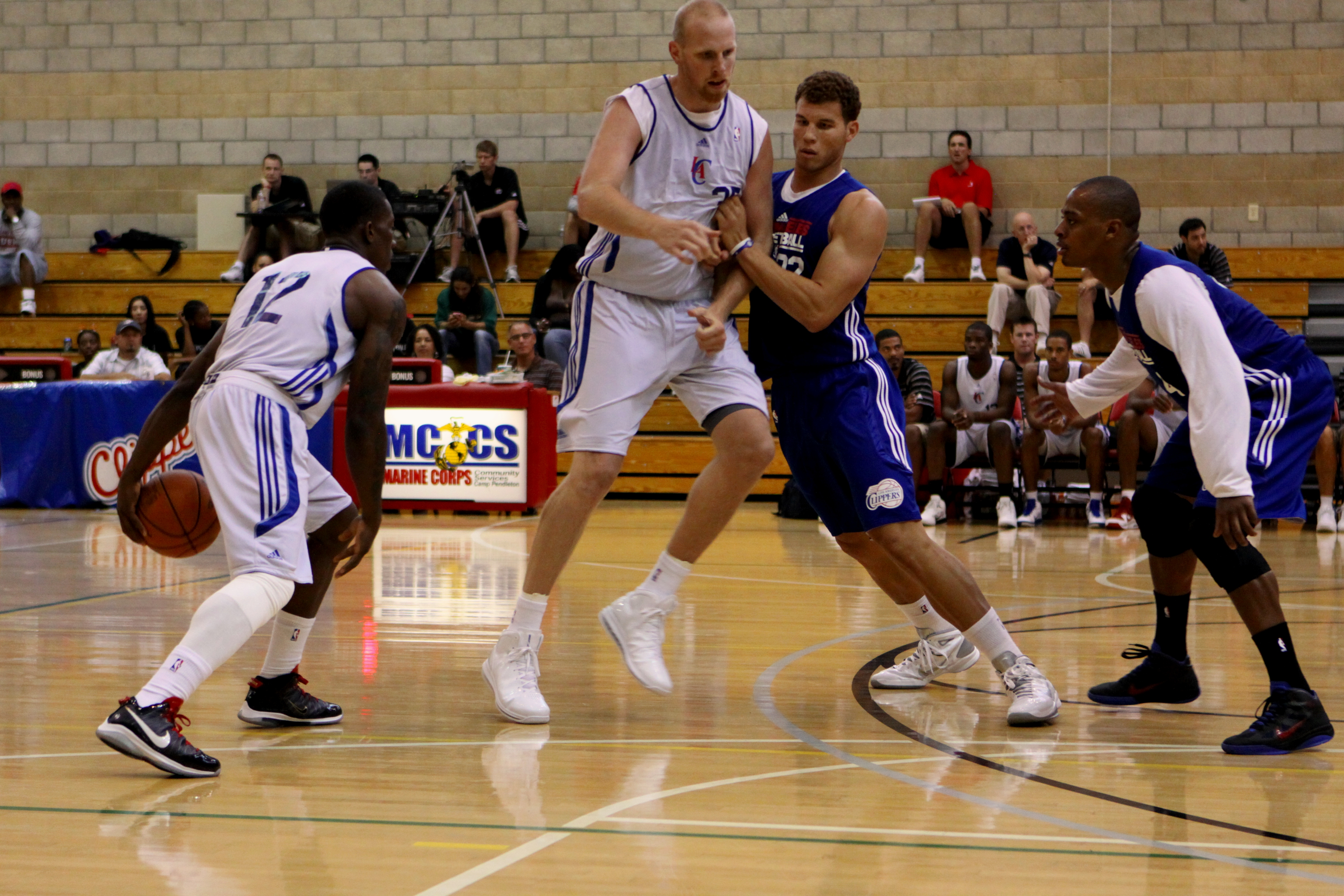 Eric Bledsoe, guard, Los Angeles Clippers, dribbles the ball down the court as Chris Kaman, center, blocks Blake Griffin during a scrimmage game at Marine Corps Base Camp Pendleton's Paige Field house, Oct. 3. The team offered a free open practice for service members and their families.